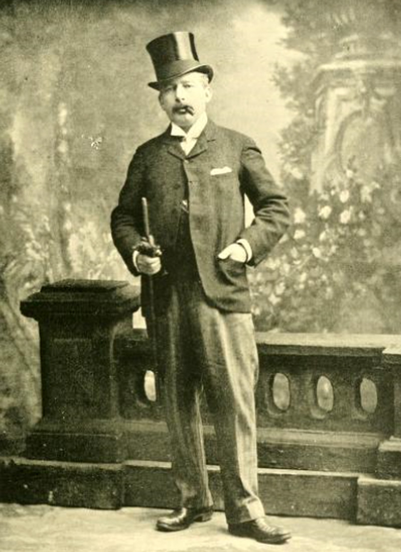 Sir Francis Astley-Corbett, owner of Elsham Hall, Lincolnshire.